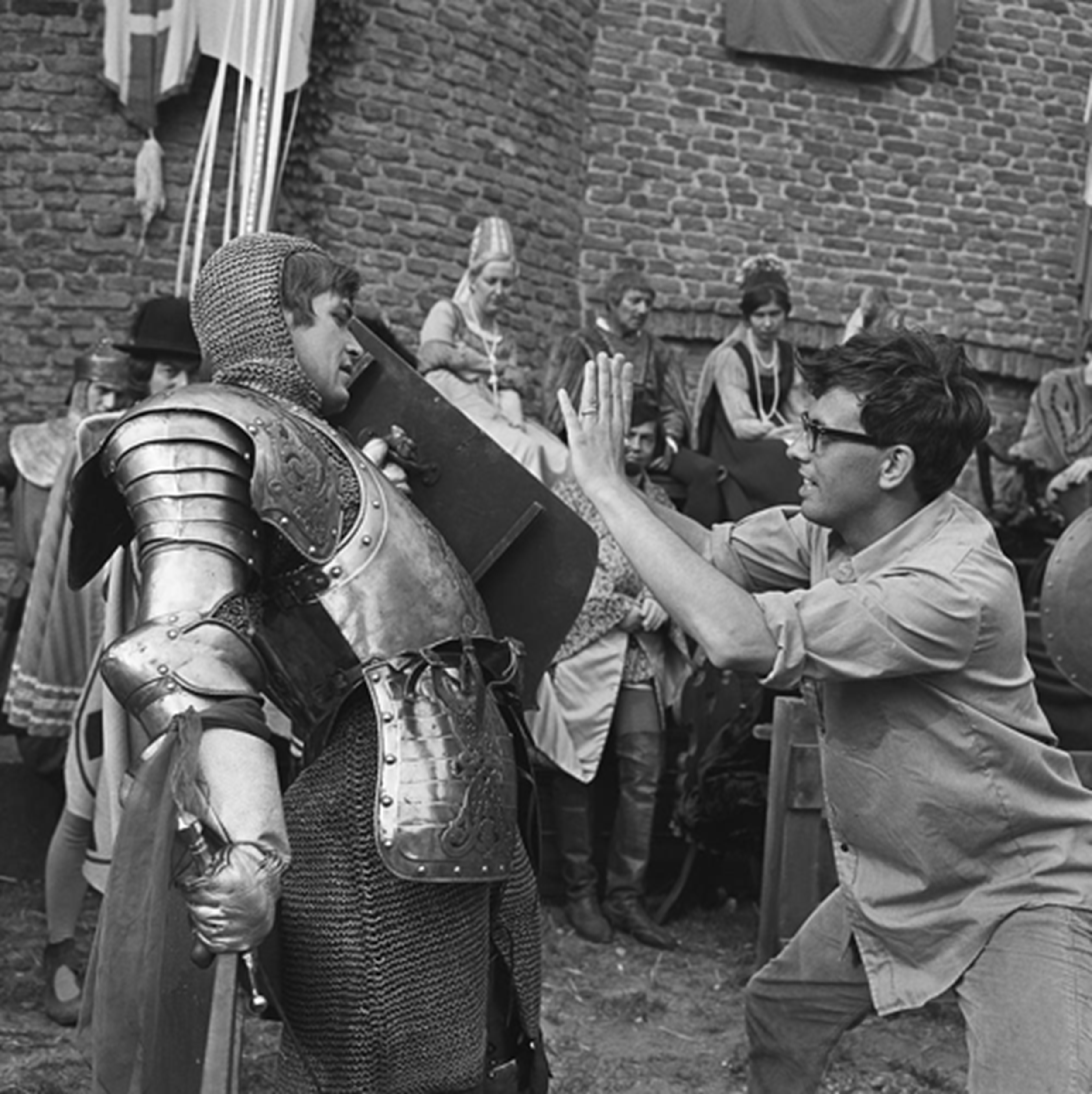 Dutch 1969 TV series Floris. Director Paul Verhoeven enacts a role.